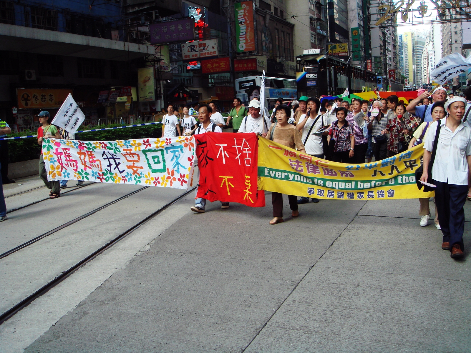 Hong Kong 2008 July 1 marches